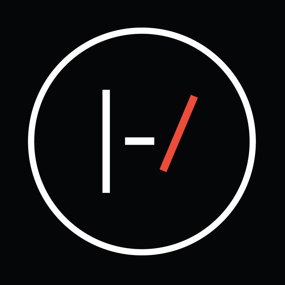 Official logo of Twenty One Pilots, an American band.